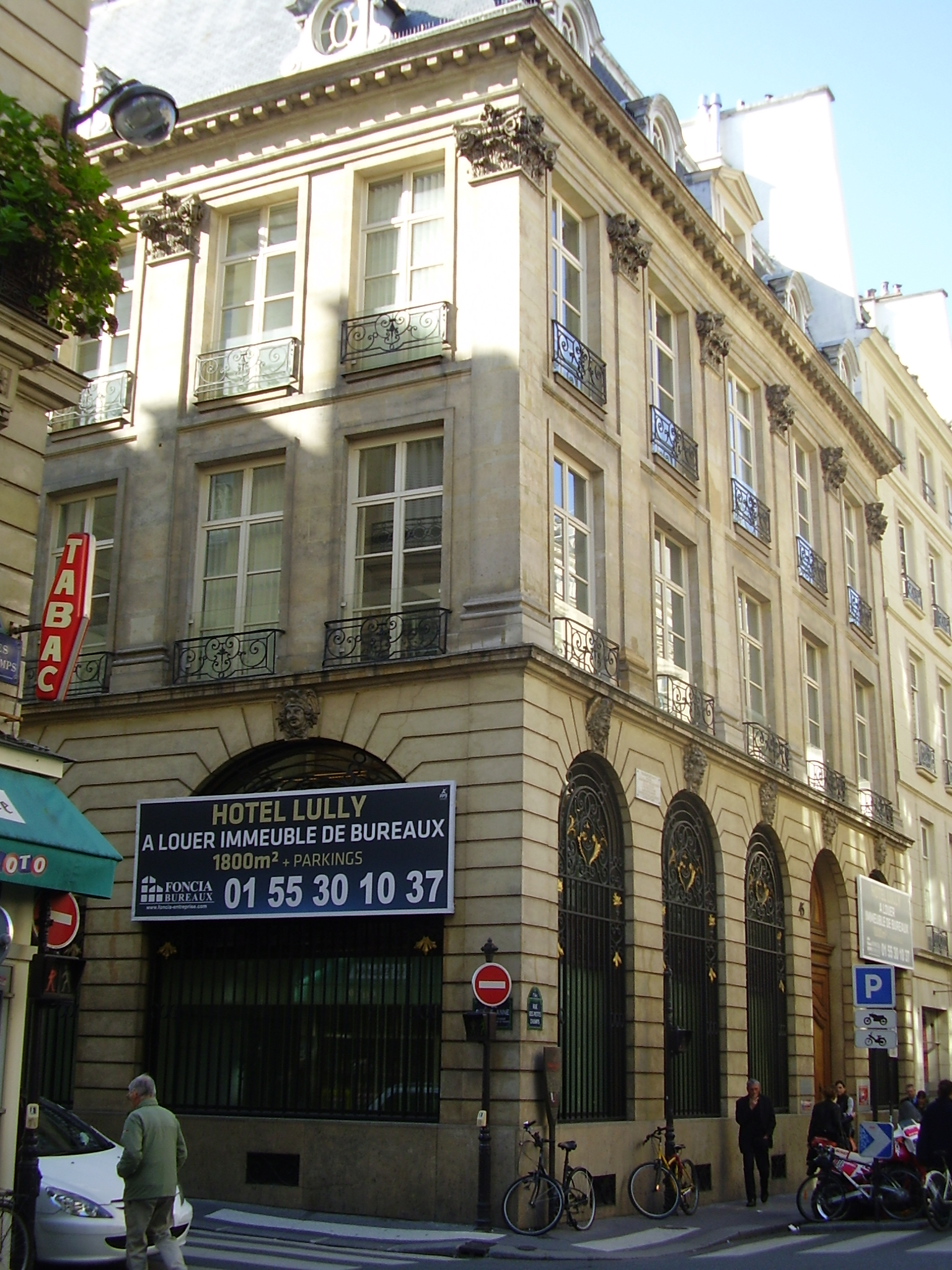 Hôtel Lully - built for the musician by Daniel Gittard. 45 rue des Petits-Champs, Paris 2nd arrondissement